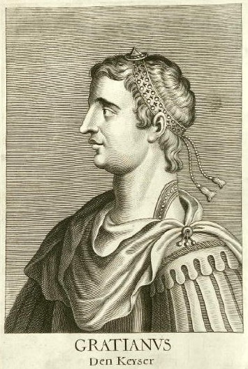 Western Roman emperor Gratian